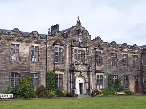 St Andrews University.